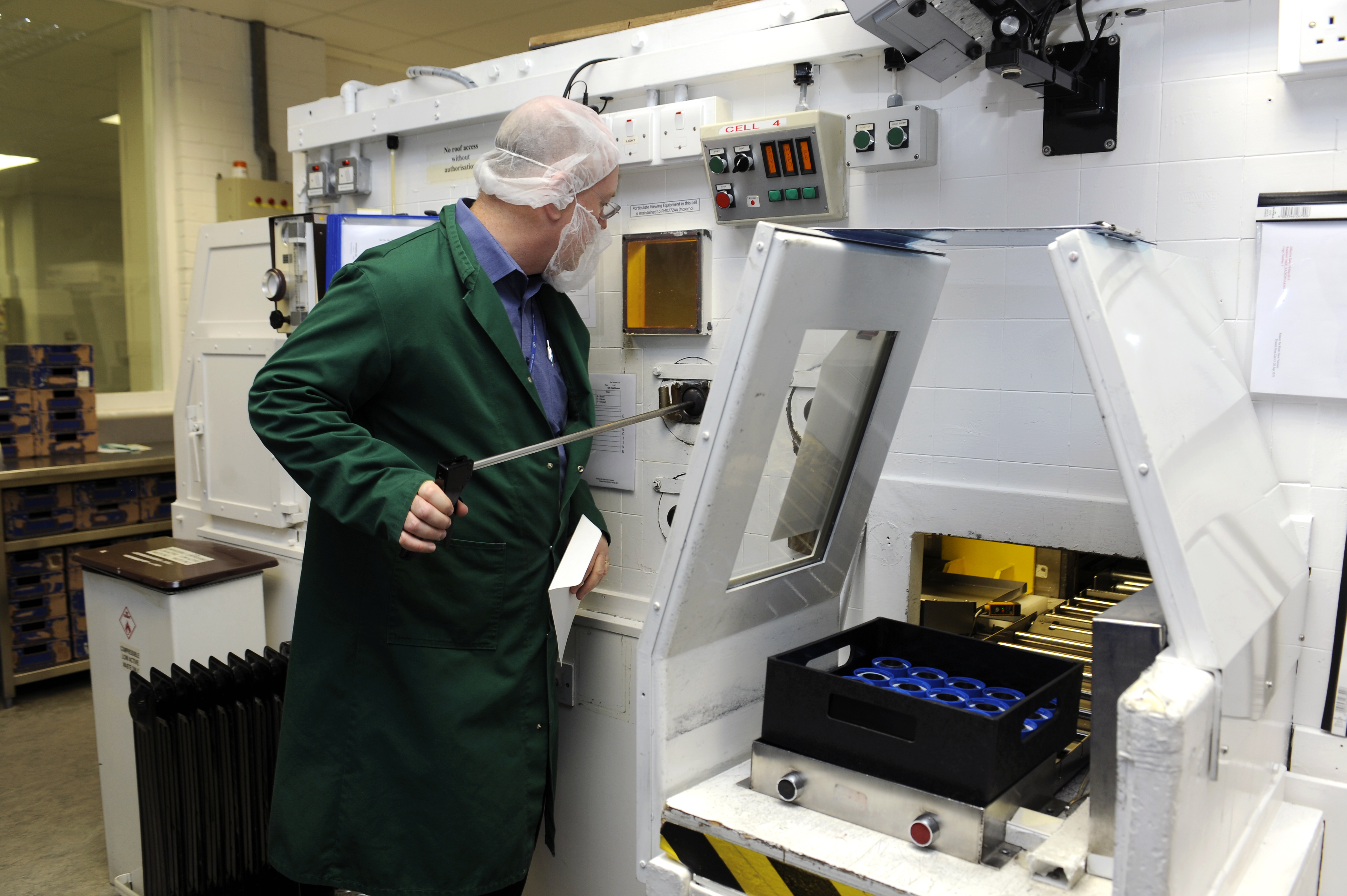 Packaging radioactive pharmaceuticals at GE Healthcare's facility in Amersham, England. Part of an album on the topic. (GE is not explicitly named in the captions, but GE lanyards are extensively visible on the staff pictured.)